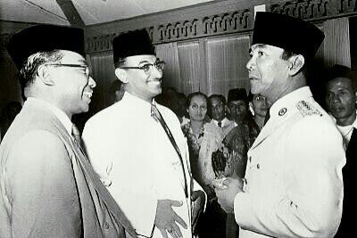 Abdurrahman Shihab and Soekarno at Constitutional Assembly